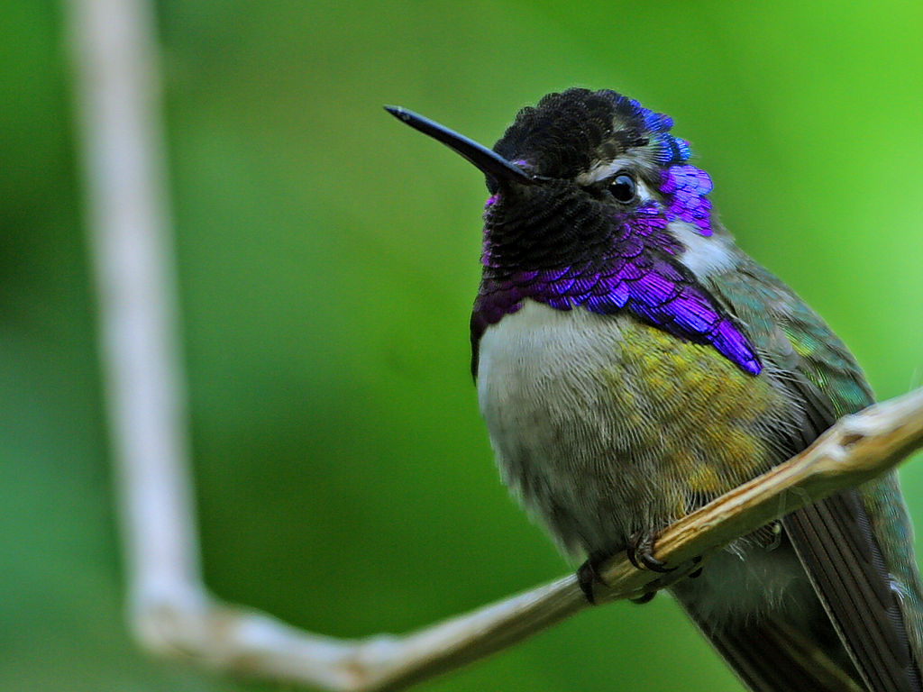 Costa's hummingbird (Calypte costae); a type of Hummingbird i.e., a member of family Trochilidae.